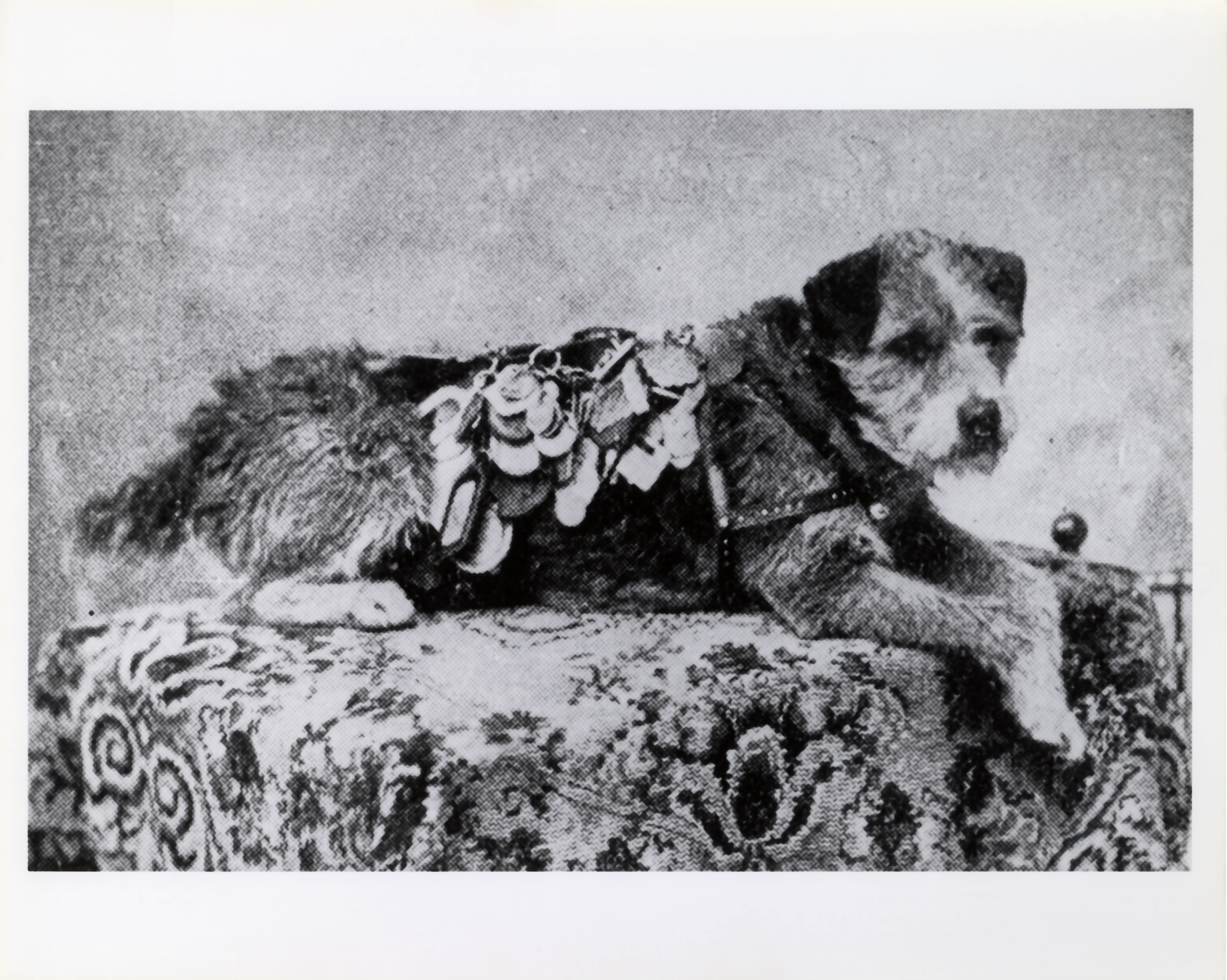 Description: Owney was a stray dog who wandered into the Albany, New York, post office in 1888. The clerks let him stay the night, and he fell asleep on a pile of empty mailbags. Owney was attracted to the texture or scent of the mailbags and began to follow them, first onto mail wagons and then onto mail trains. Owney began to ride with the bags on Railway Post Office (RPO) train cars across the state, and then the country. The RPO clerks adopted Owney as their unofficial mascot, marking his travels by placing medals and tags from his stops on his collar. Creator/Photographer: Unidentified photographer Medium: Medium unknown Culture: American Geography: USA Date: 1895 Collection: Owney Collection Persistent URL: Repository: National Postal Museum Accession number: A.2008-42